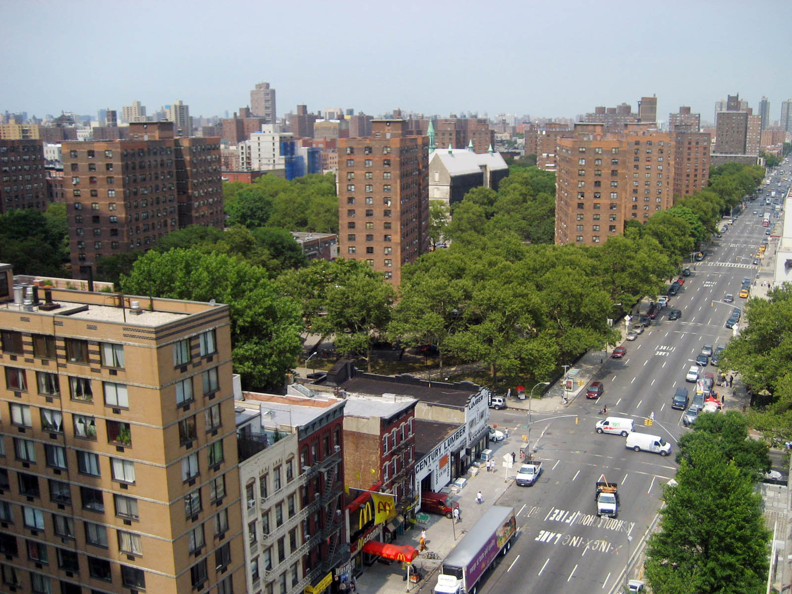 Looking north from 96th Street along Second Avenue toward East Harlem. The intersection in view is 97th Street.